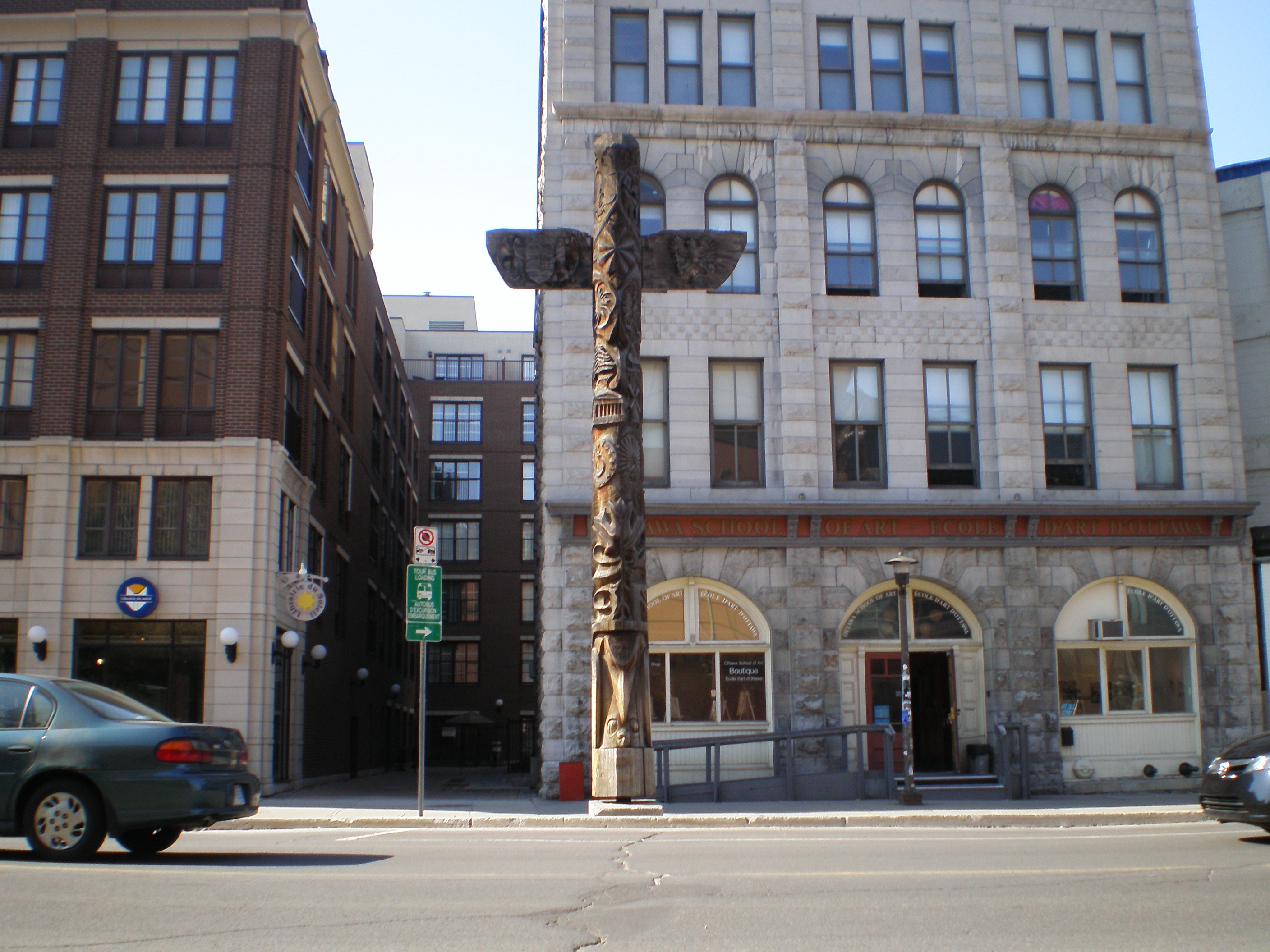 Totem in the middle of a street in the Byward Market in Ottawa, Canada. The Totem Pole is located in from of the Ottawa School of Art.